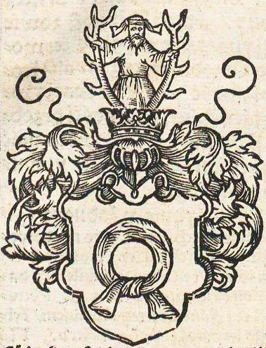 Nałęcz coat of arms by B. Paprocki, published in "Herby rycerztwa.."